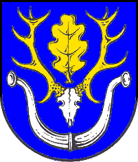 Coat of arms of Linsburg